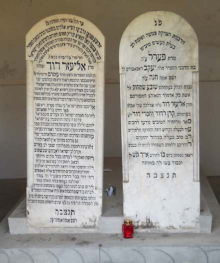 Tombstone of Rabbi Eliezer Dovid Greenwald and spouse